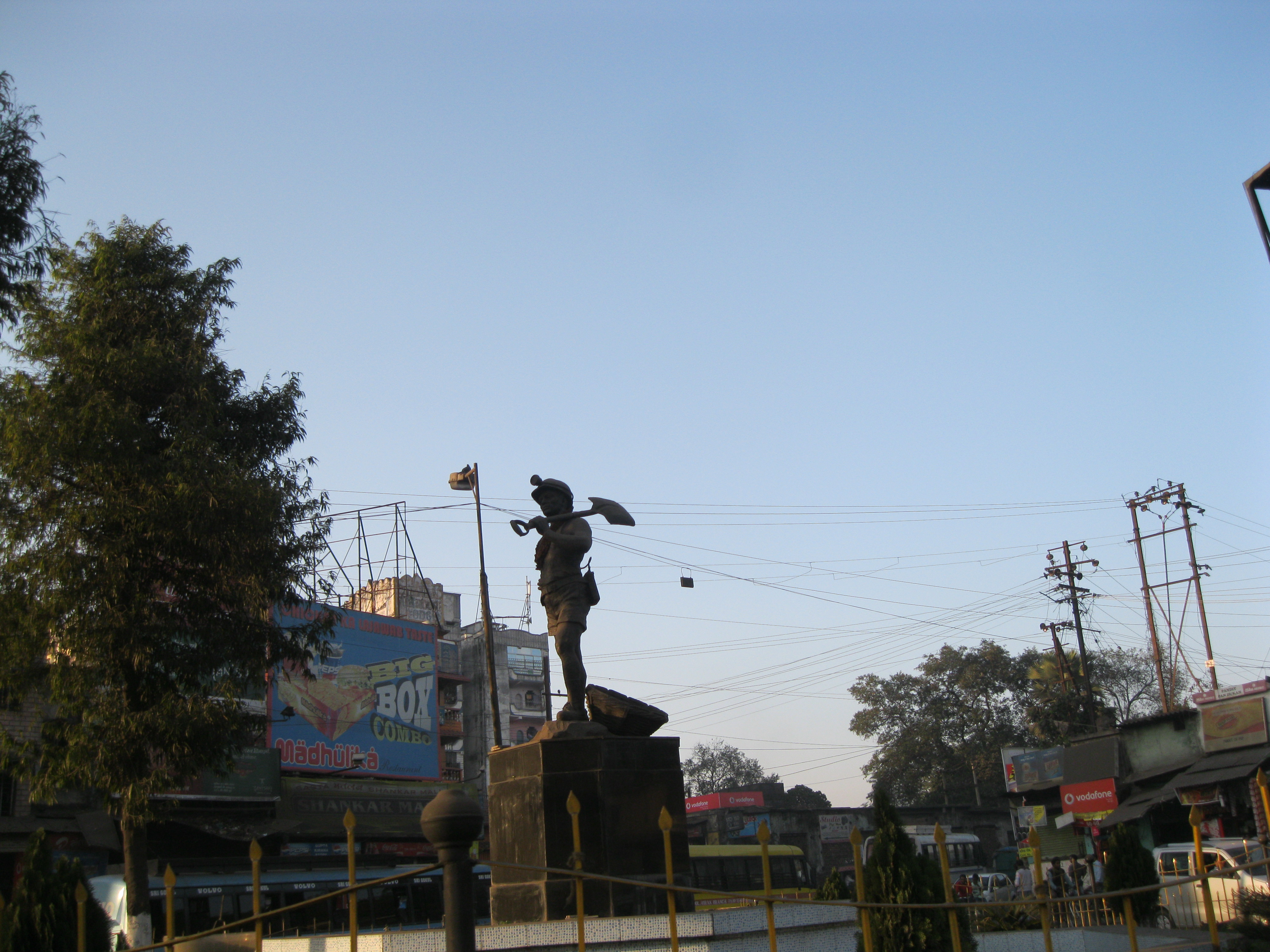 jarkhant india